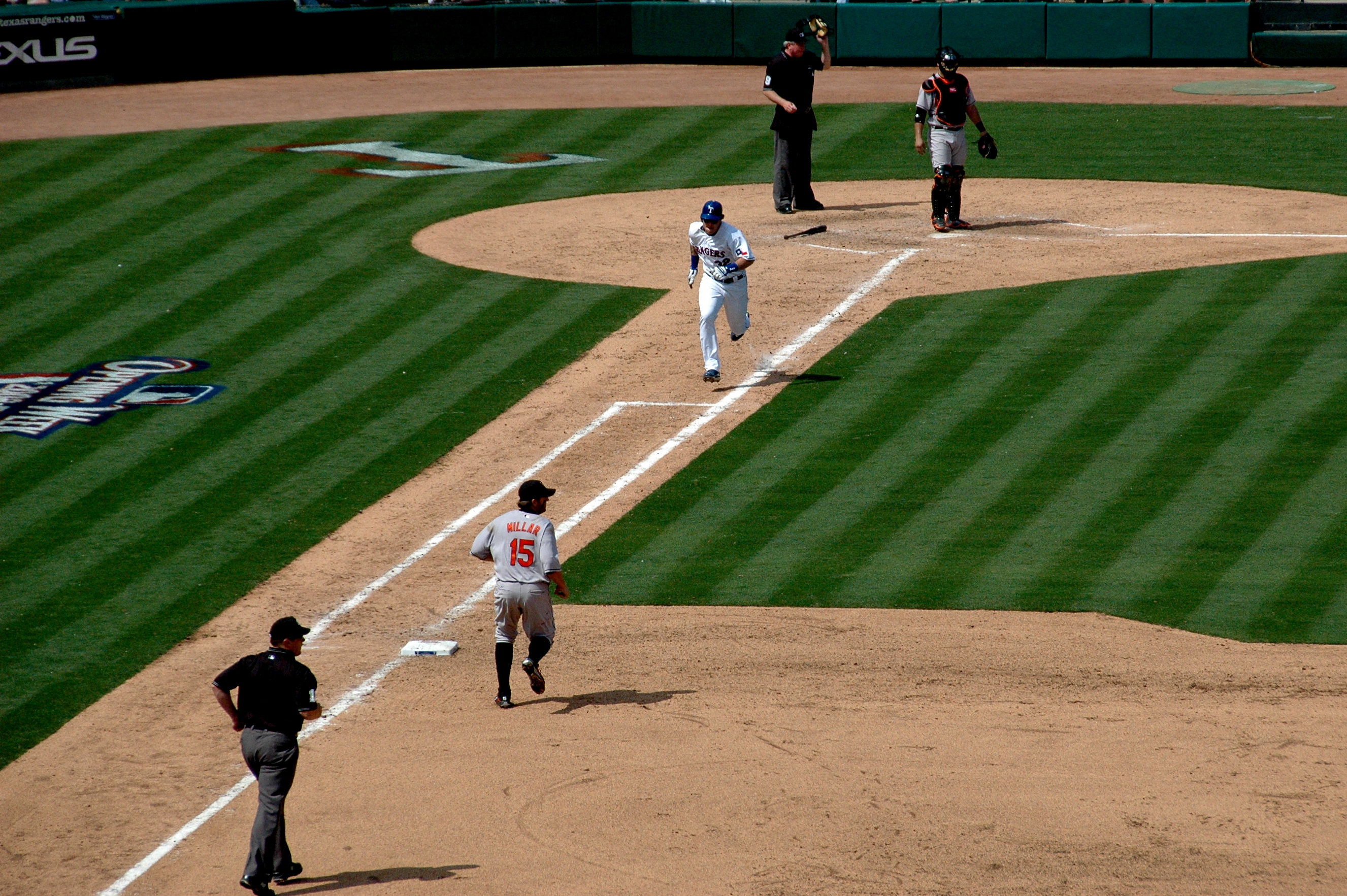 Josh Hamilton of the Texas Rangers